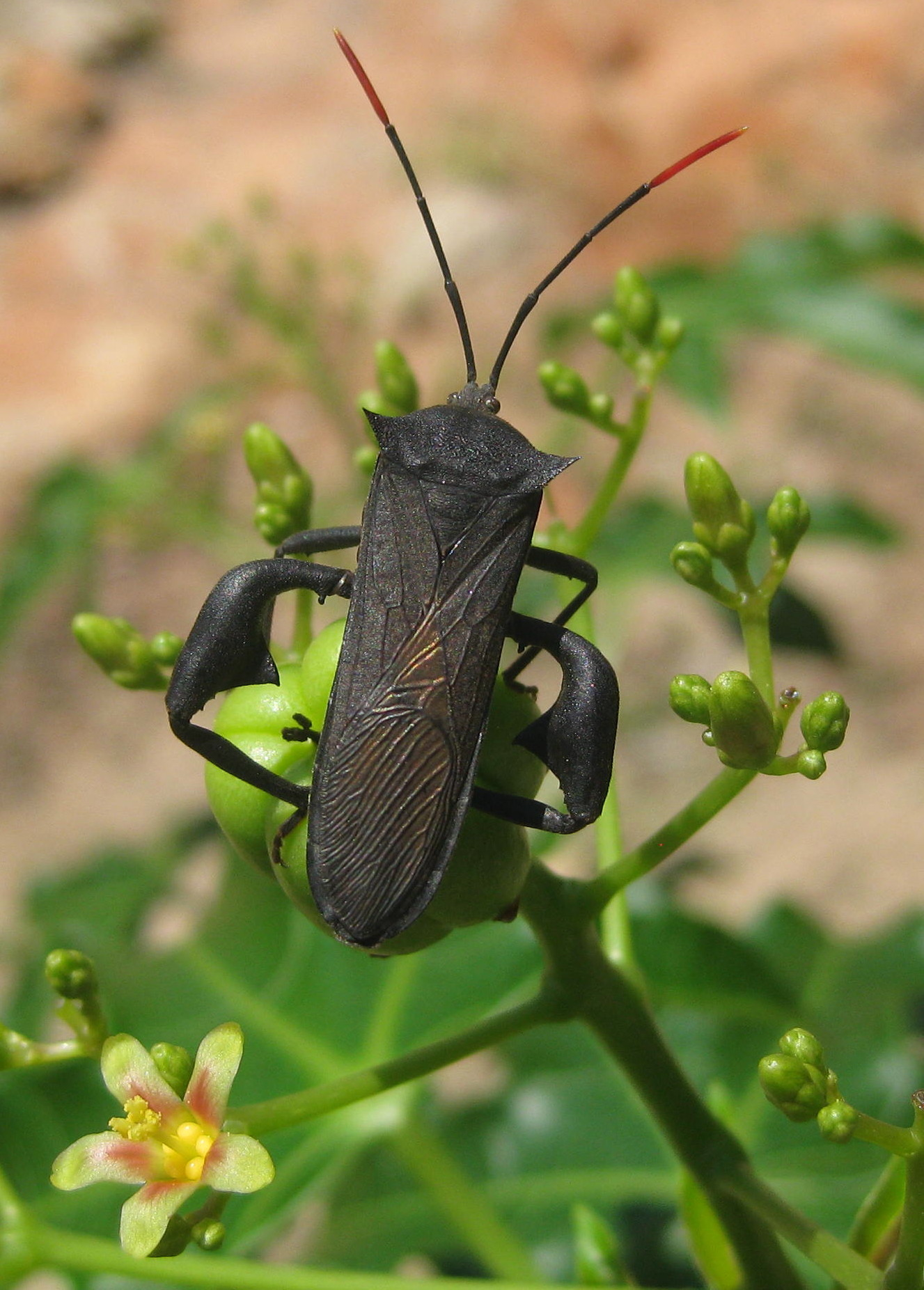 Anoplocnemis curvipes found in Pemba, Cabo Delgado, Mozambique.